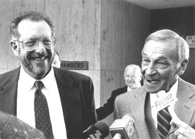 Las Vegas mayor Oscar Goodman and former judge Harry Claiborne